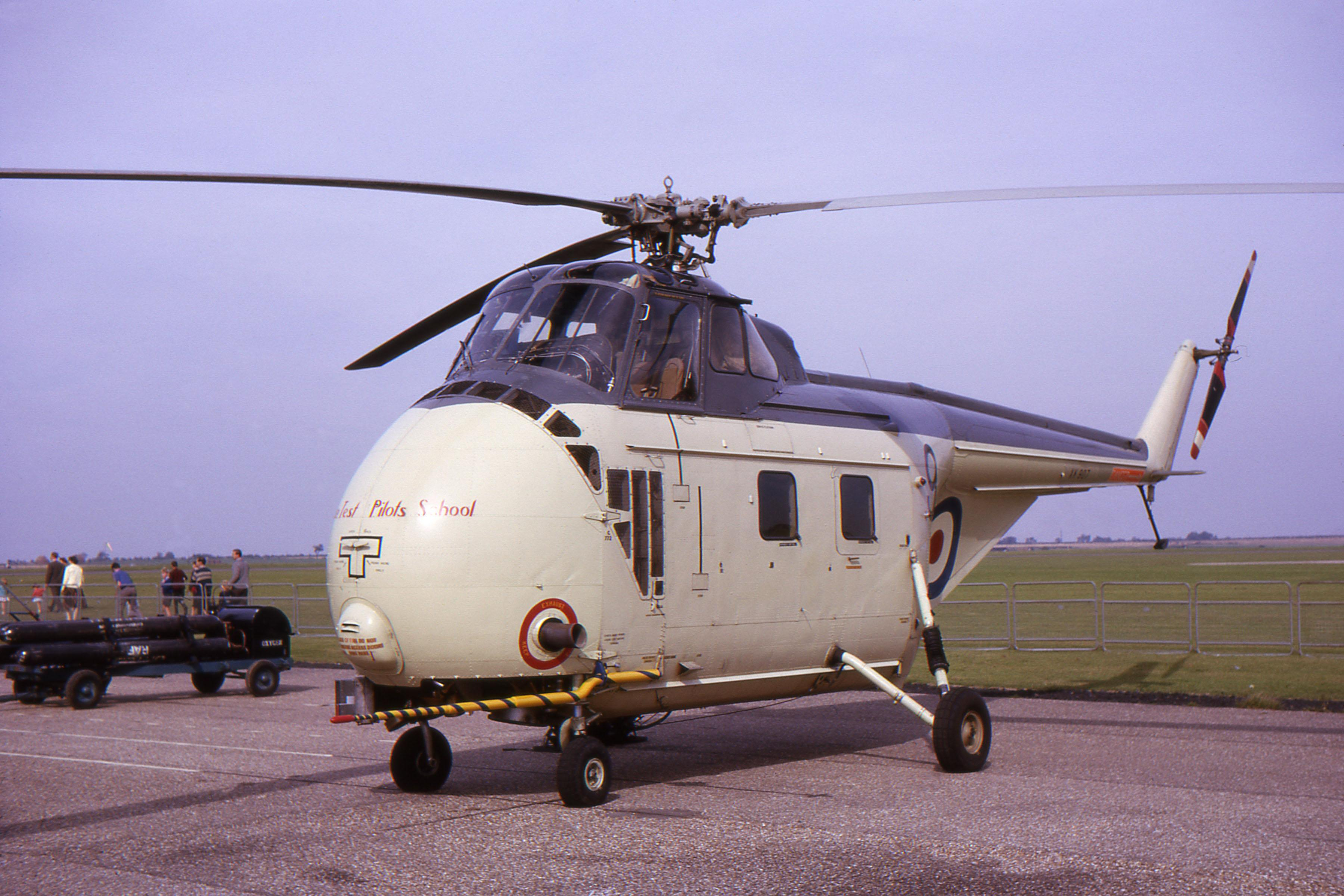 Empire Test Pilots' School Westland Whirlwind HAS.7 XK907 at RAF Waterbeach, Cambridgeshire on Battle of Britain Day 14 September 1963